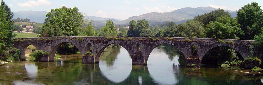 Bridge of the Port situated in the river Cávado, between Braga and Amares.